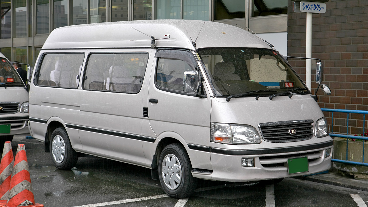 Toyota Hiace Grandcabin G-e ( KZH120G )